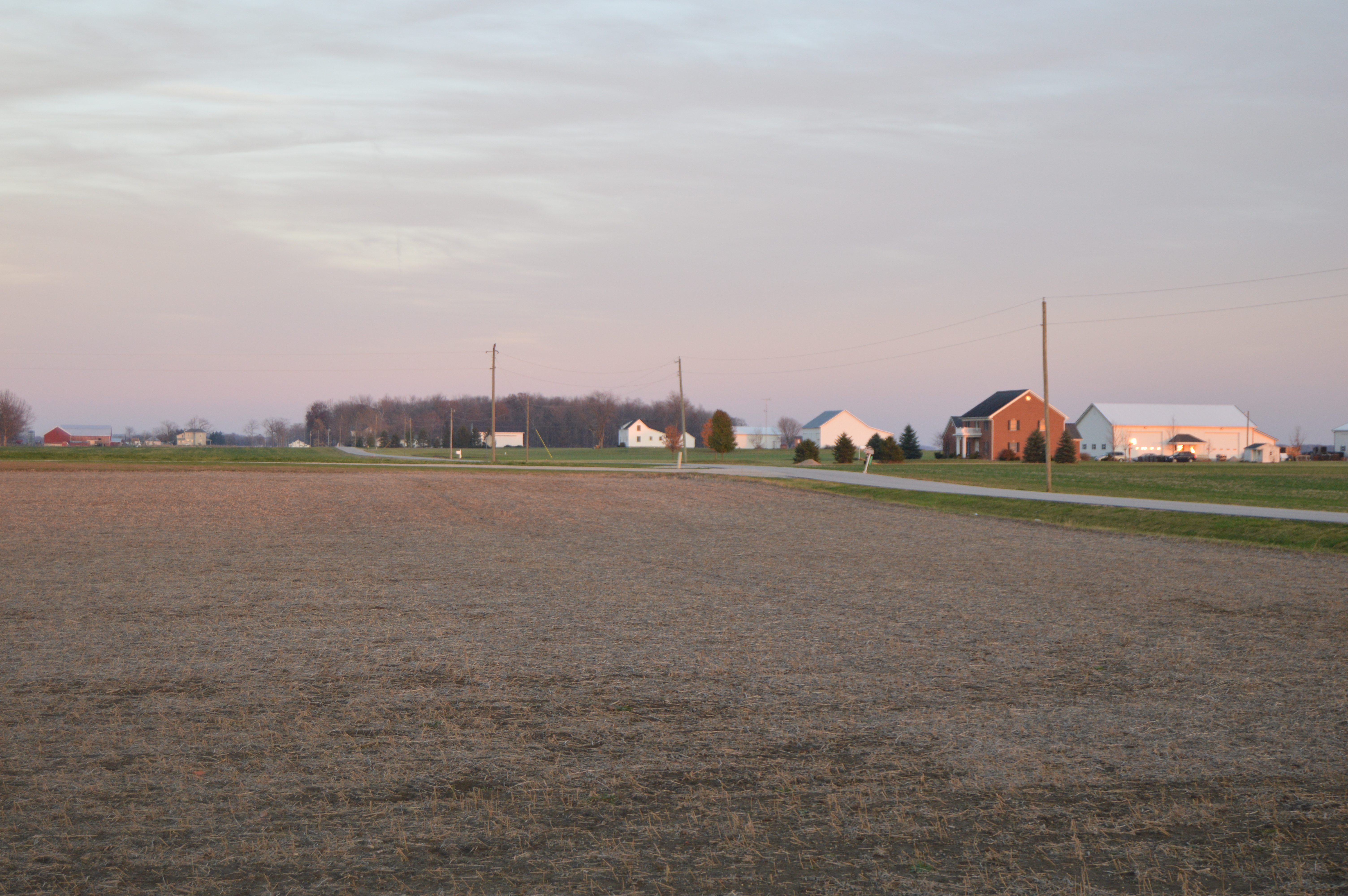 Fields on the eastern side of Miller Road just north of Fessler-Buxton Road (visible at far right) south of Russia in in Loramie Township, Shelby County, Ohio, United States.